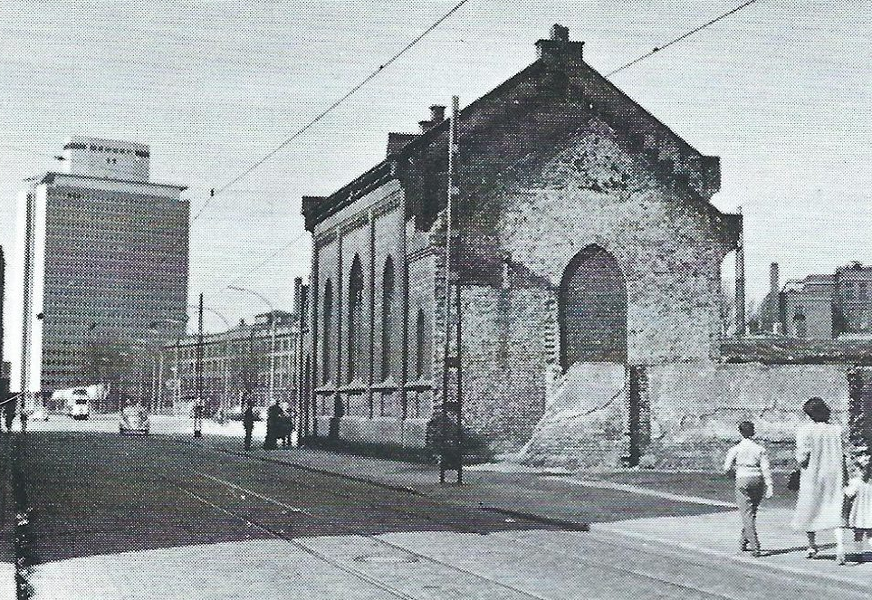 formerly Mennonite Church Ludwigshafen